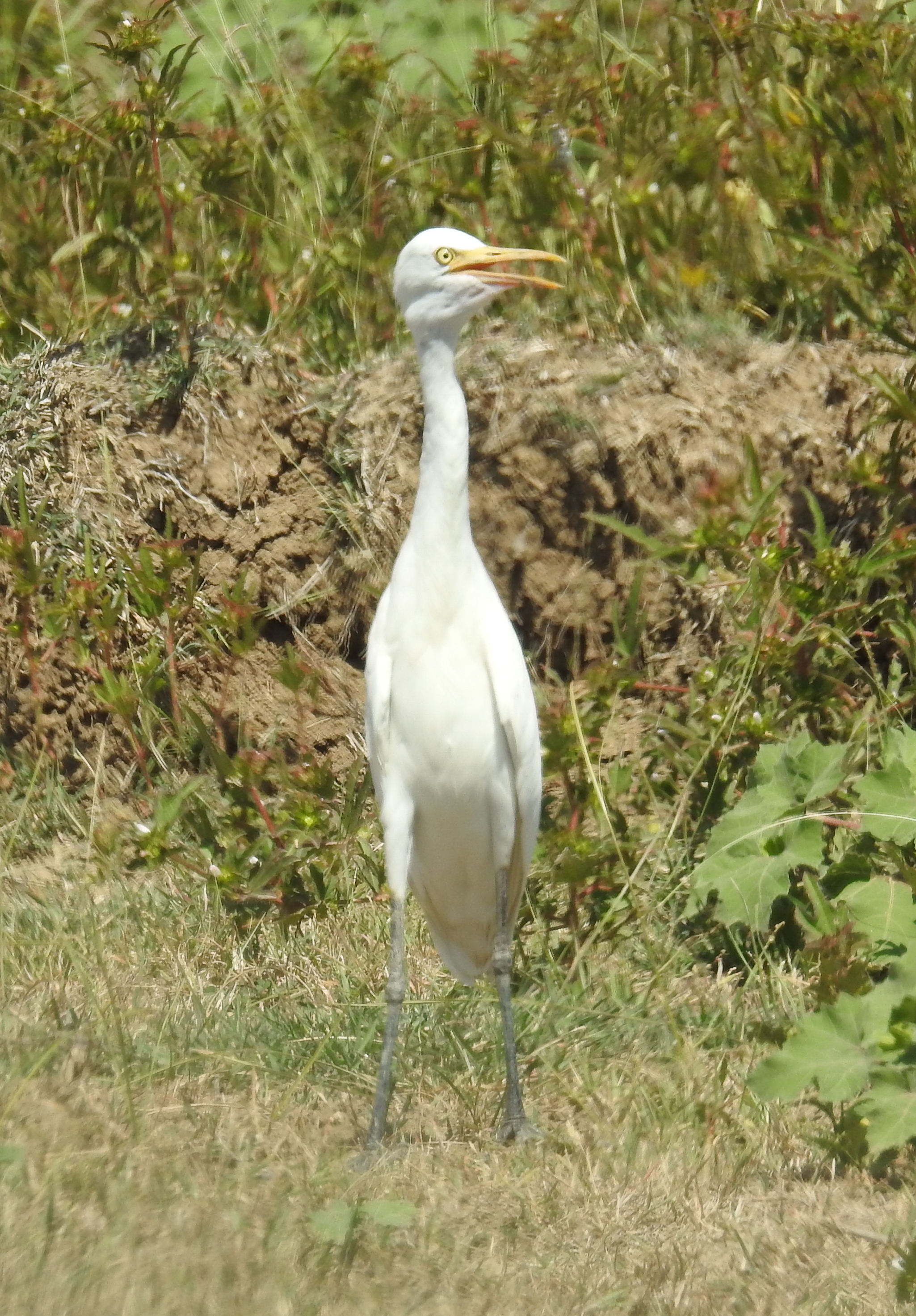 A Cattle Egret apparently quite hot at edge of ricefield